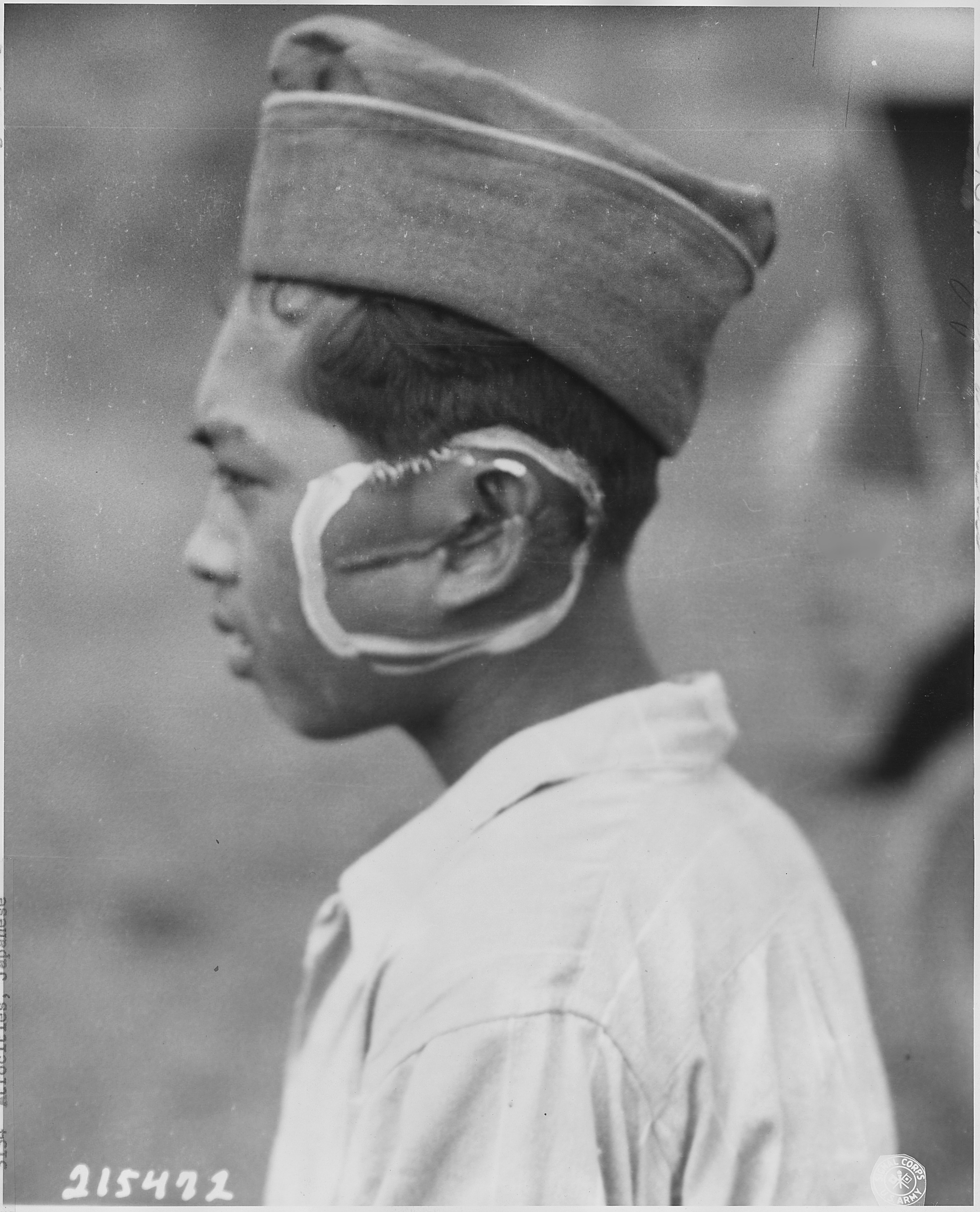 Scope and content: Scar on face and ear of Juan Castillo, Filipino, is result of mutilation inflicted by Japanese. 9/25/45. Lipa, Batangas, P.I.